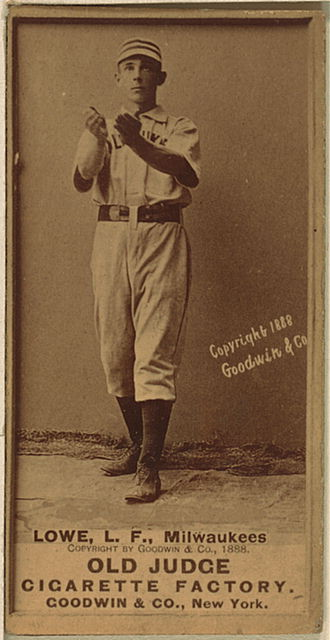 Baseball card of Boston Braves outfielder Bobby Lowe during a minor league stint with a team in Milwaukee.